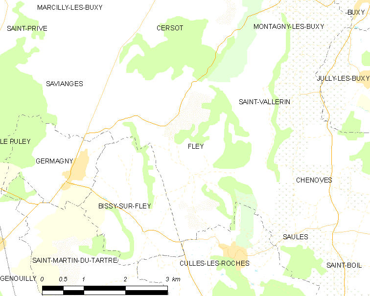 Map of French municipality